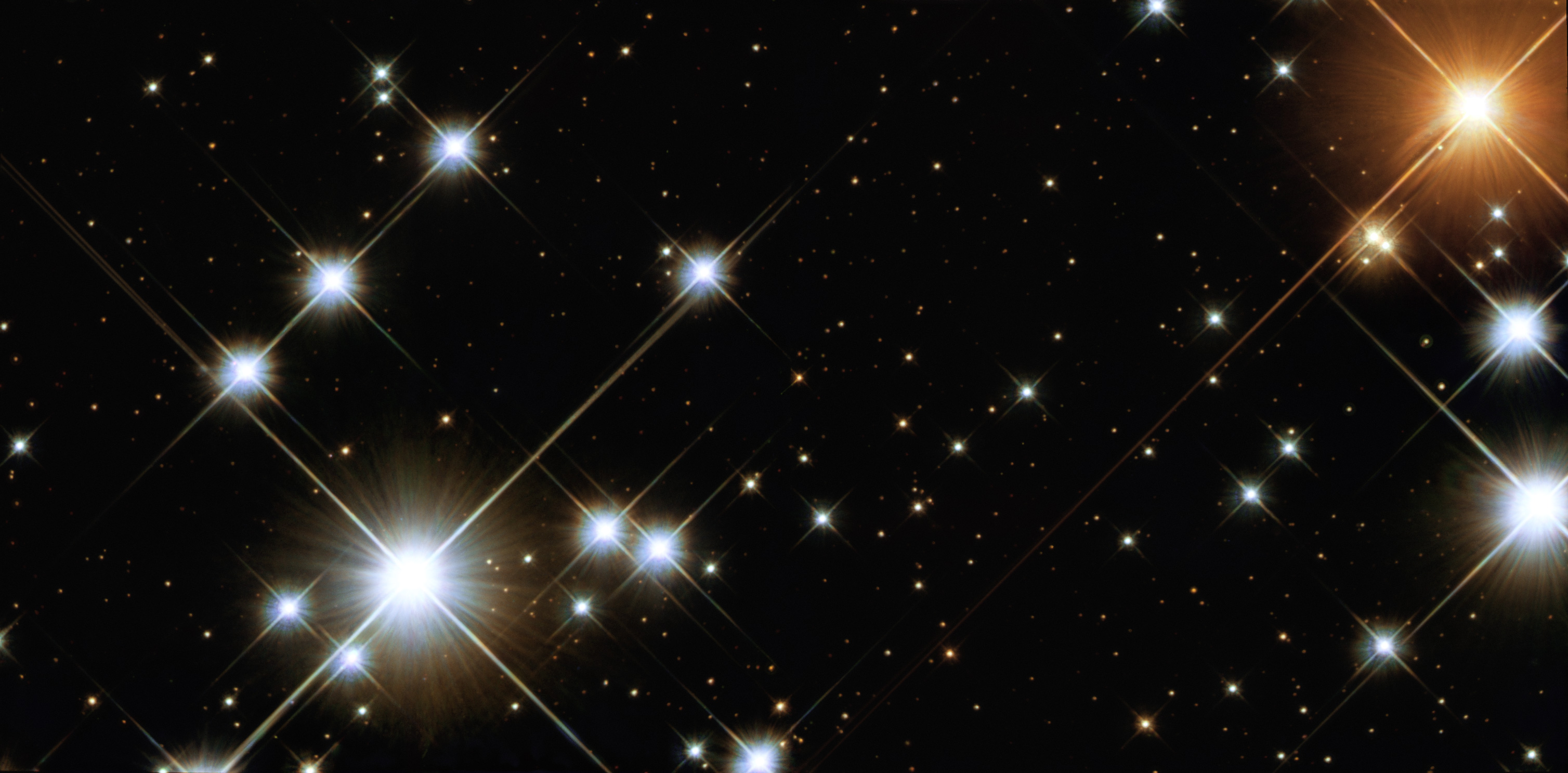 This image is a “close-up” view from the NASA/ESA Hubble Space Telescope of NGC 4755, or the Jewel Box cluster. Several very bright, pale blue super-giant stars (eg. κ Crucis on the left, HD 111934 on the lower right and HIP 62913 in the middle right), a solitary ruby-red super-giant (HIP 62918 - upper right) and a variety of other brilliantly coloured stars are visible in the image, as well as many much fainter ones, often with intriguing colours. The huge variety in brightness exists because the brighter stars are 15 to 20 times the mass of the Sun, while the dim points are less than half the mass of the Sun. This is the first image of an open galactic cluster with imaging extending from the far ultraviolet to the near-infra-red.